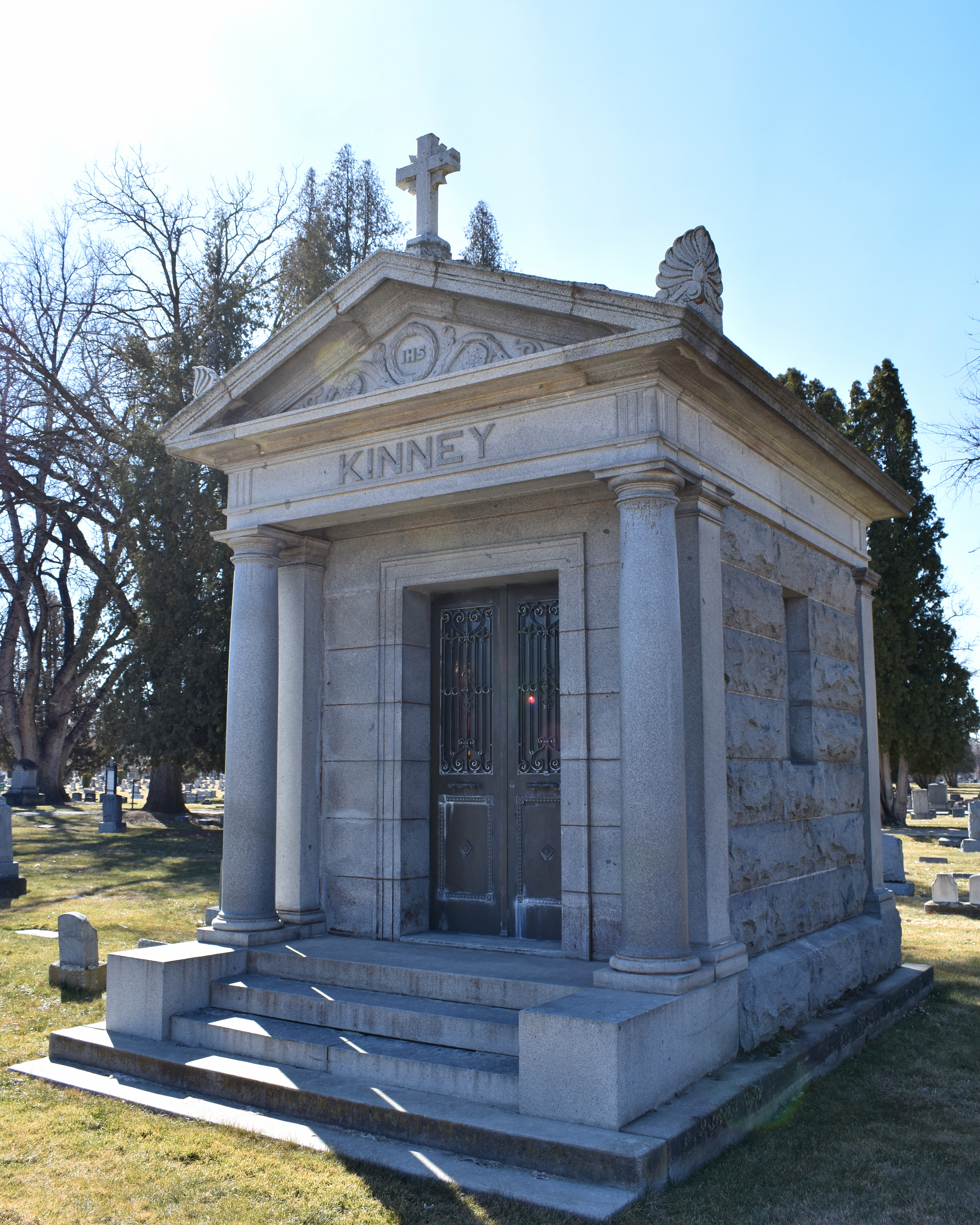 The Joseph Kinney Mausoleum (1904) at Morris Hill Cemetery in Boise, Idaho, was designed by Tourtellotte & Co. and is listed on the National Register of Historic Places.